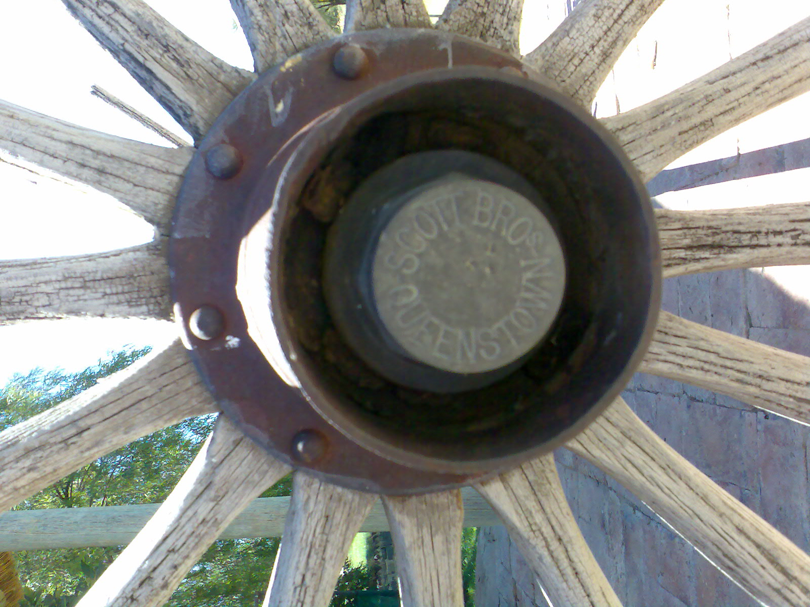 Artillery style hub on cartwheel with threaded brass hubcap marked Scott Brothers, Queenstown, Eastern Cape, South Africa.